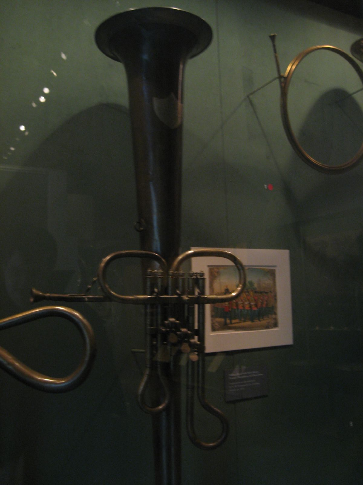 Ophicleide built by Leopold Uhlmann, Vienna, 1838-40.